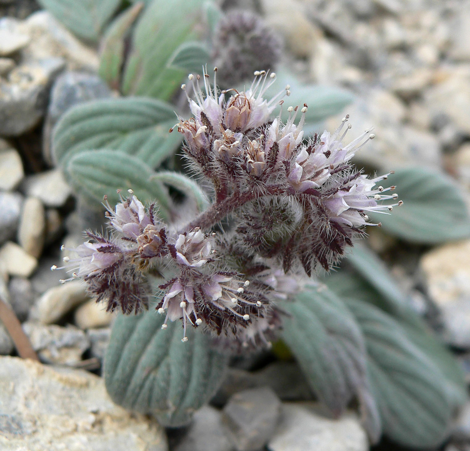 Phacelia hastata var. charlestonensis in Lee Canyon near the Deer Creek Highway junction, Spring Mountains, southern Nevada (elev. about 2400 m)